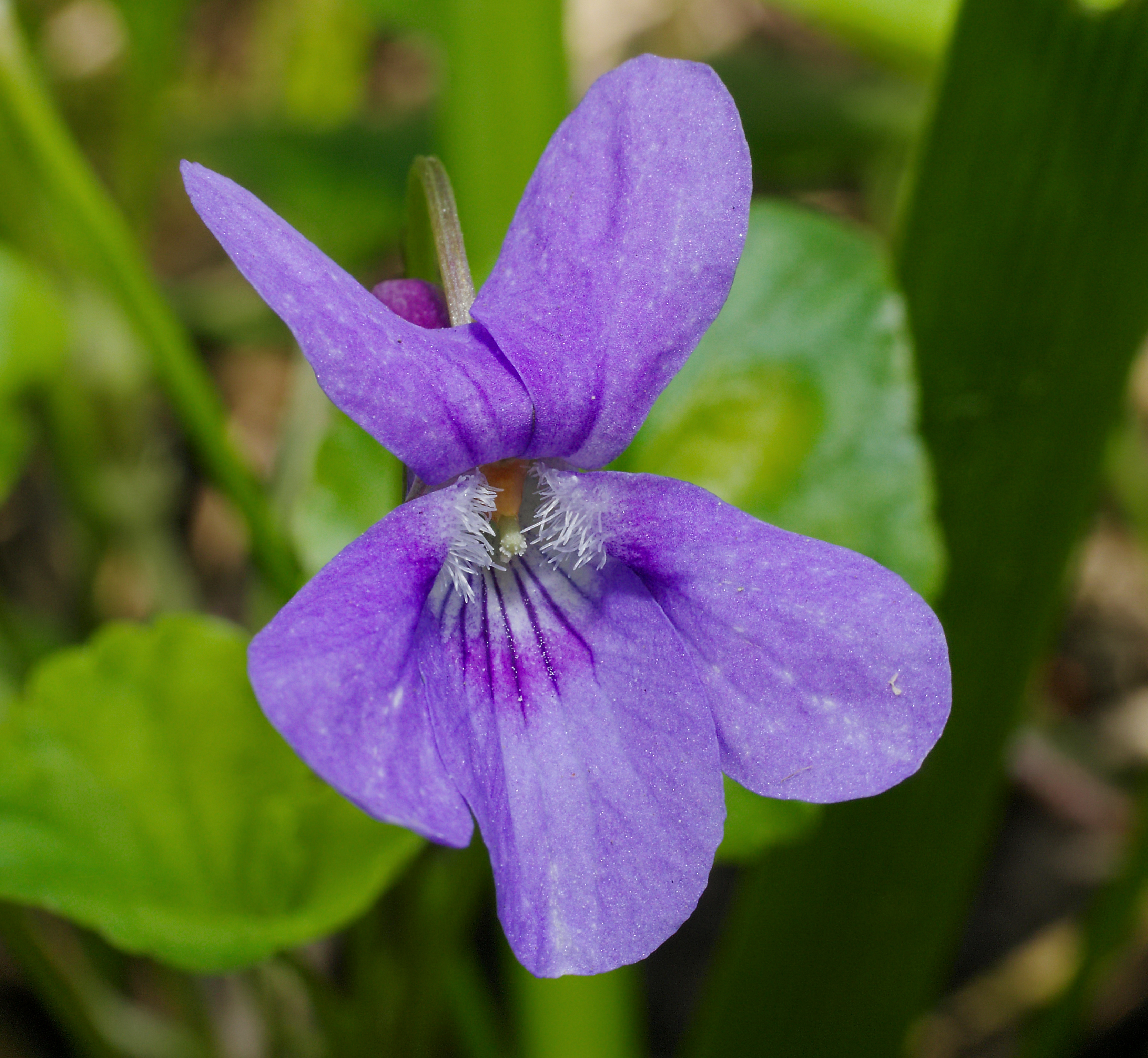 Early dog-violet - Viola reichenbachiana. Taken in Waldpark in Mannheim-Neckarau, Baden-Württemberg, Germany.